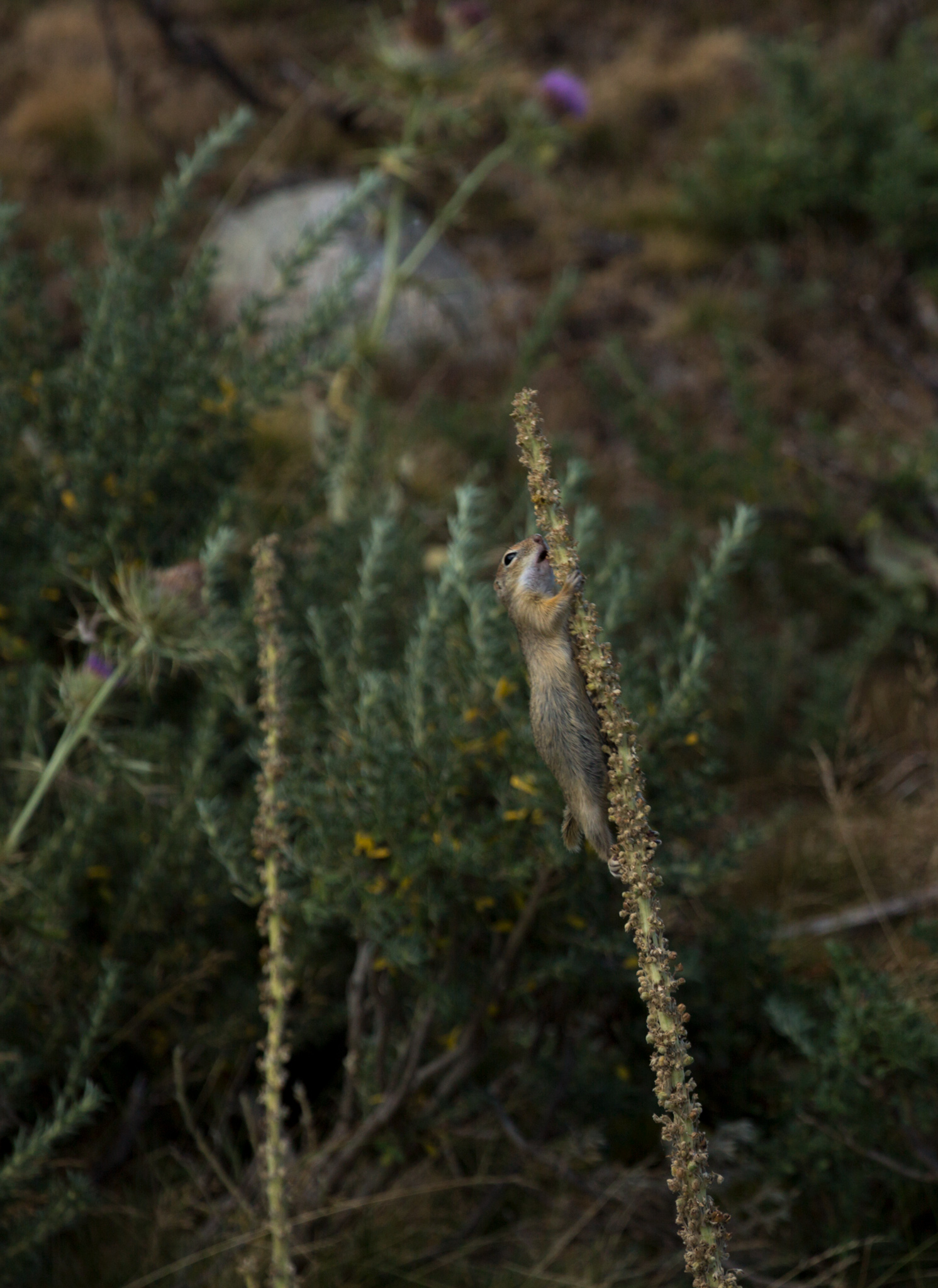 European ground squirrel (Spermophilus citellus) eating the seeds of a denseflower mullein (Verbascum densiflorum)